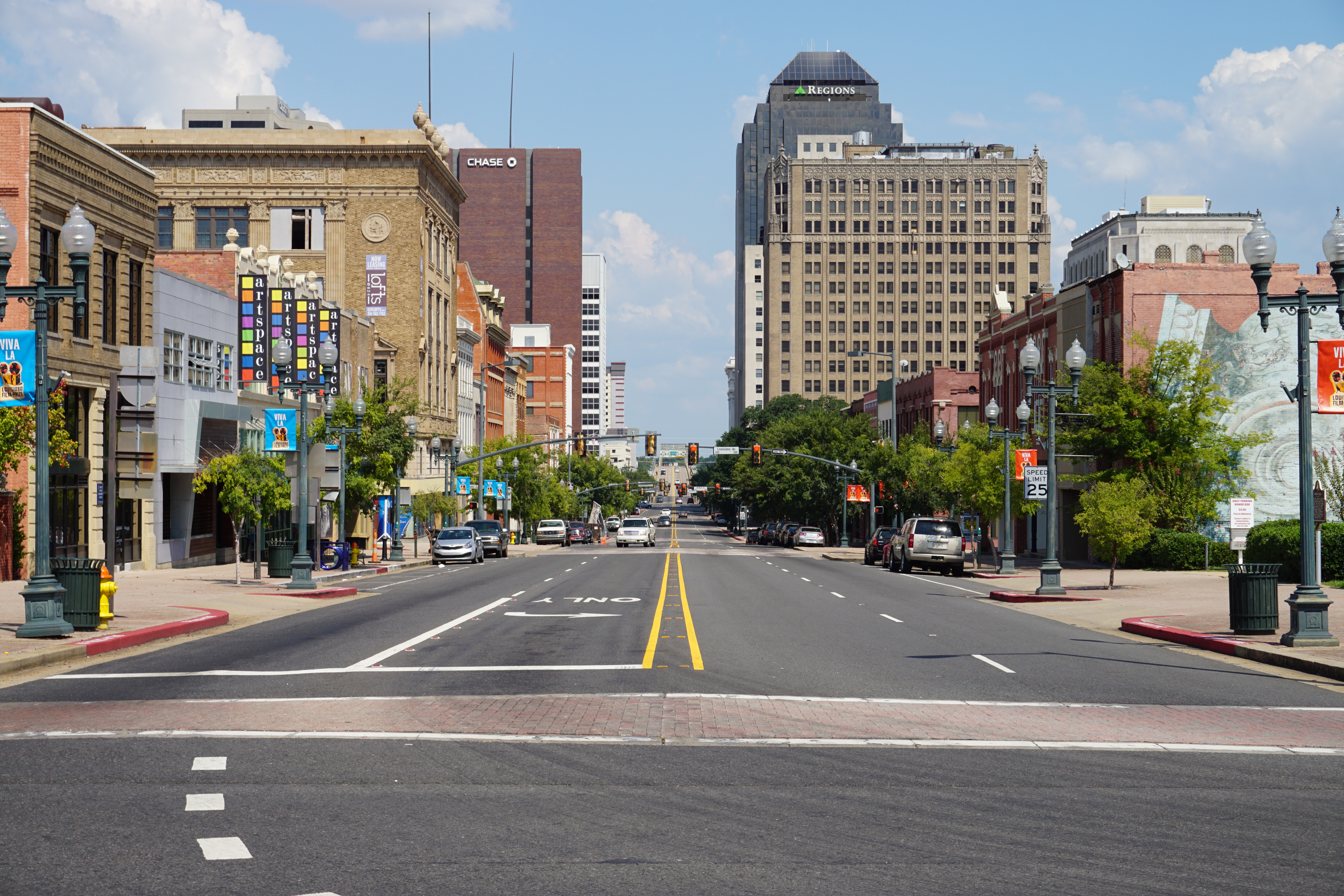 Texas Street in Shreveport, Louisiana (United States).